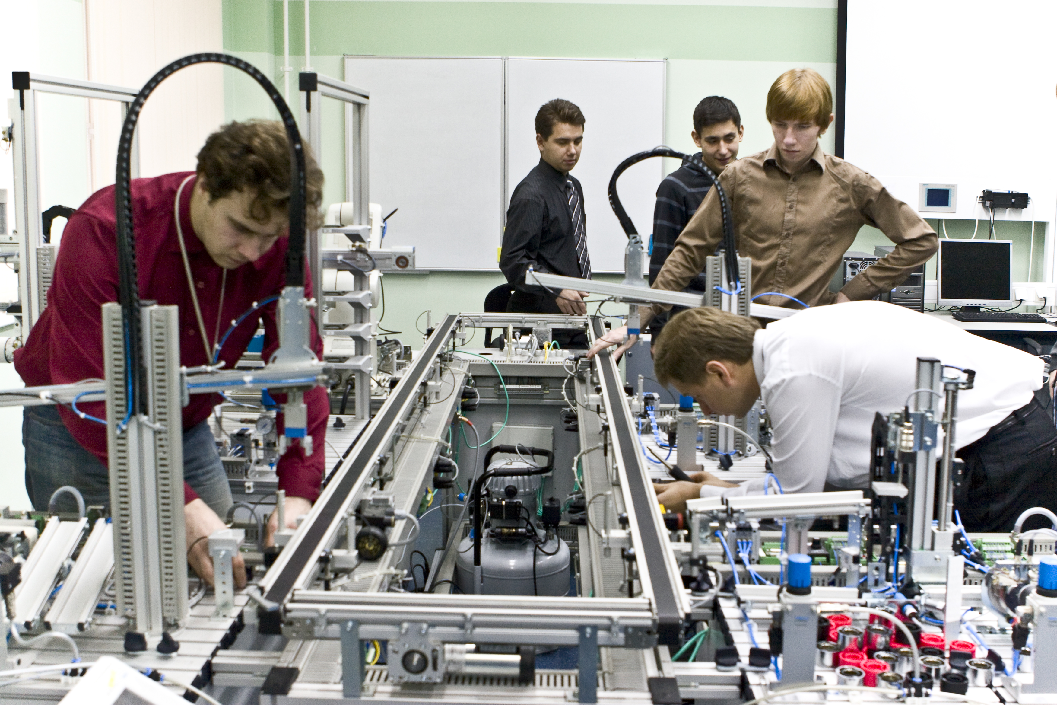 Students in laboratory in Distributed Intelligent Systems Department in Saint Petersburg State Polytechnical University.